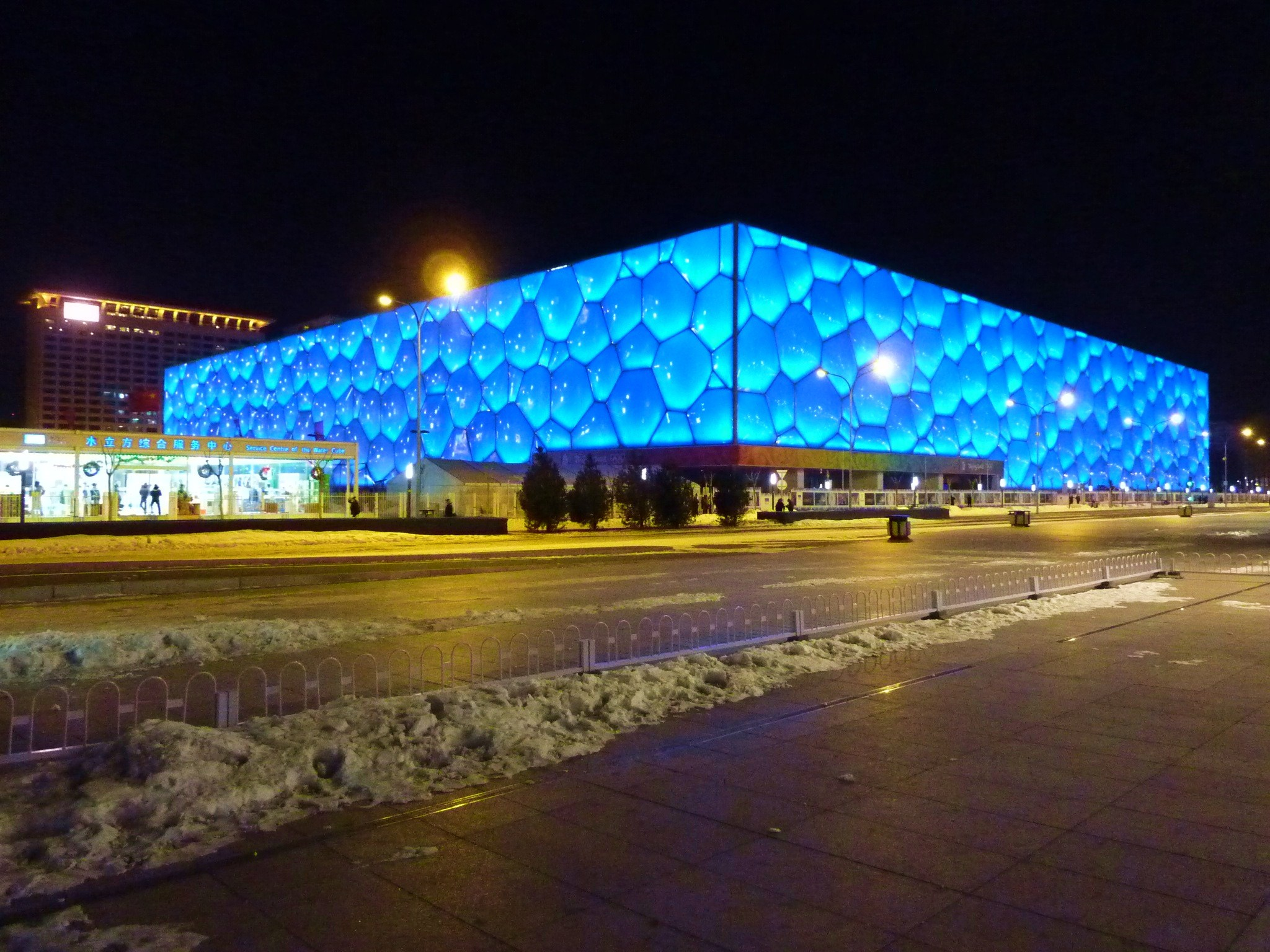 ·˙·ChinaUli2010·.· Beijing - Olympic-Swimstadion by night